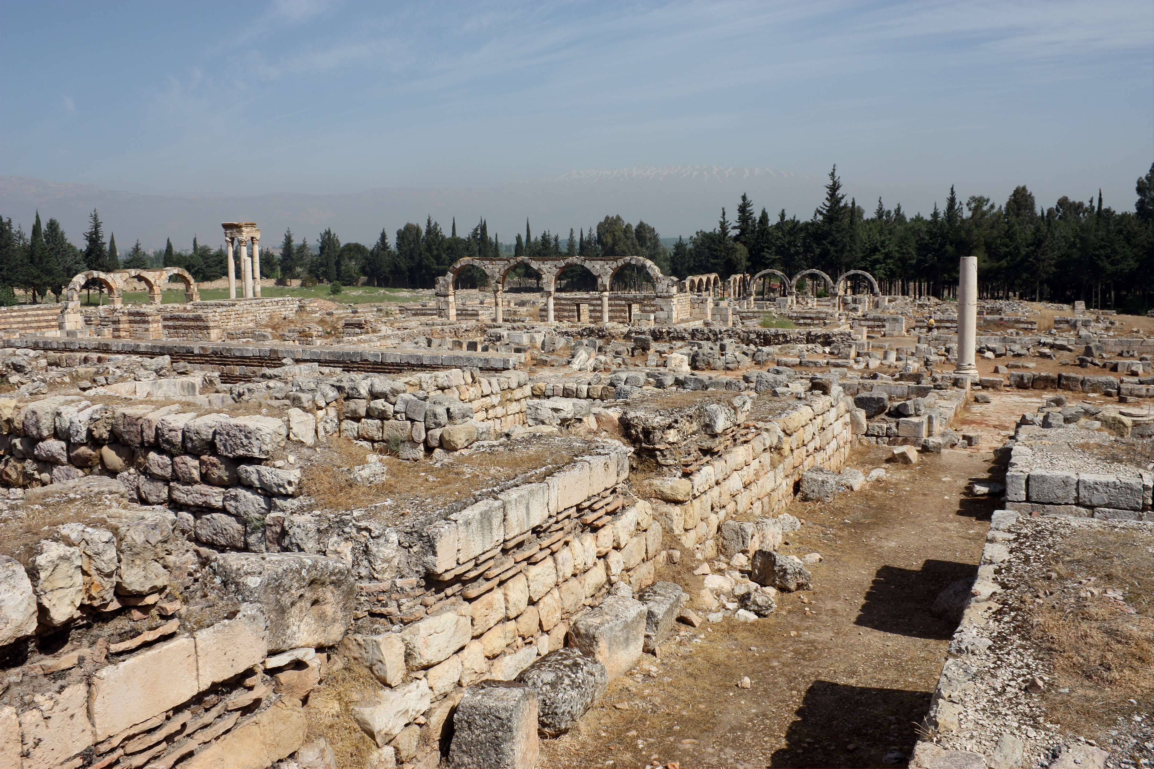 The Umayyad city of Anjar, seen from the Great Palace.